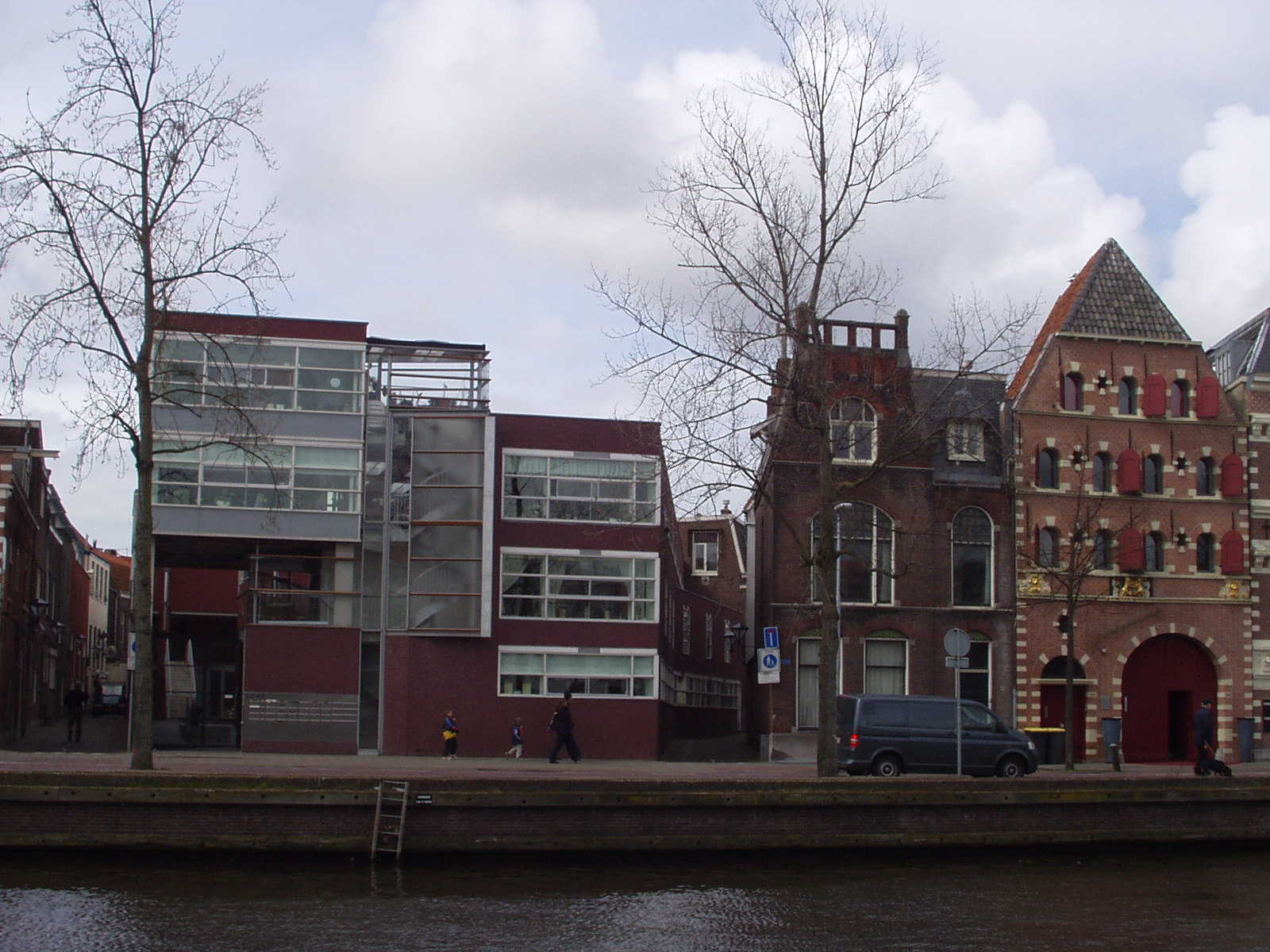 Gravinnehof on the left, Spaarne/Gravinnesteeg, Haarlem, Netherlands. On the right is the old storage house called "'t Wapen van Gelderland" with stone reliefs on the front.